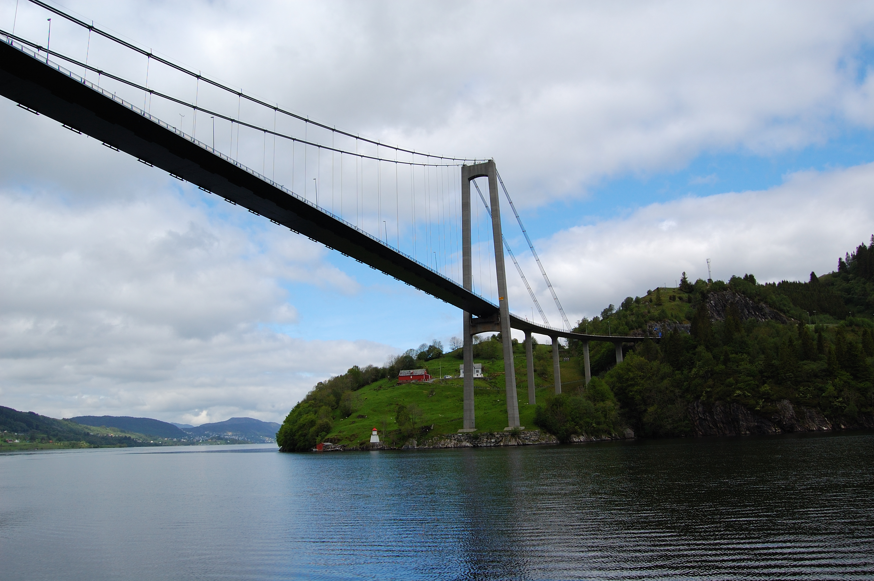 Osterøy Bridge in Hordaland, Norway.